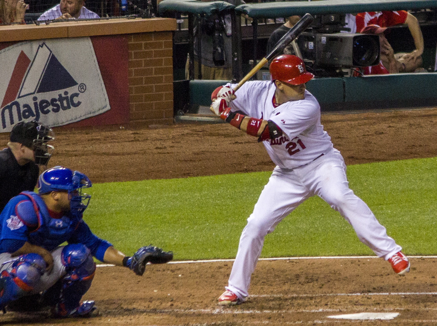 Cardinal player Allen Craig bats 2014